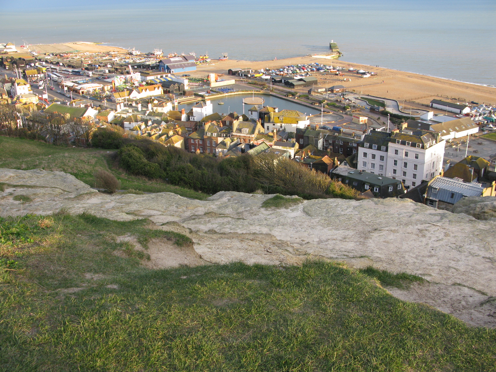 Hastings from West hill